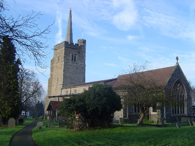 Aldenham: Church of St John the Baptist. There is an excellent active website for the Church here